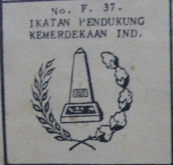 election symbol on 1955 ballot paper